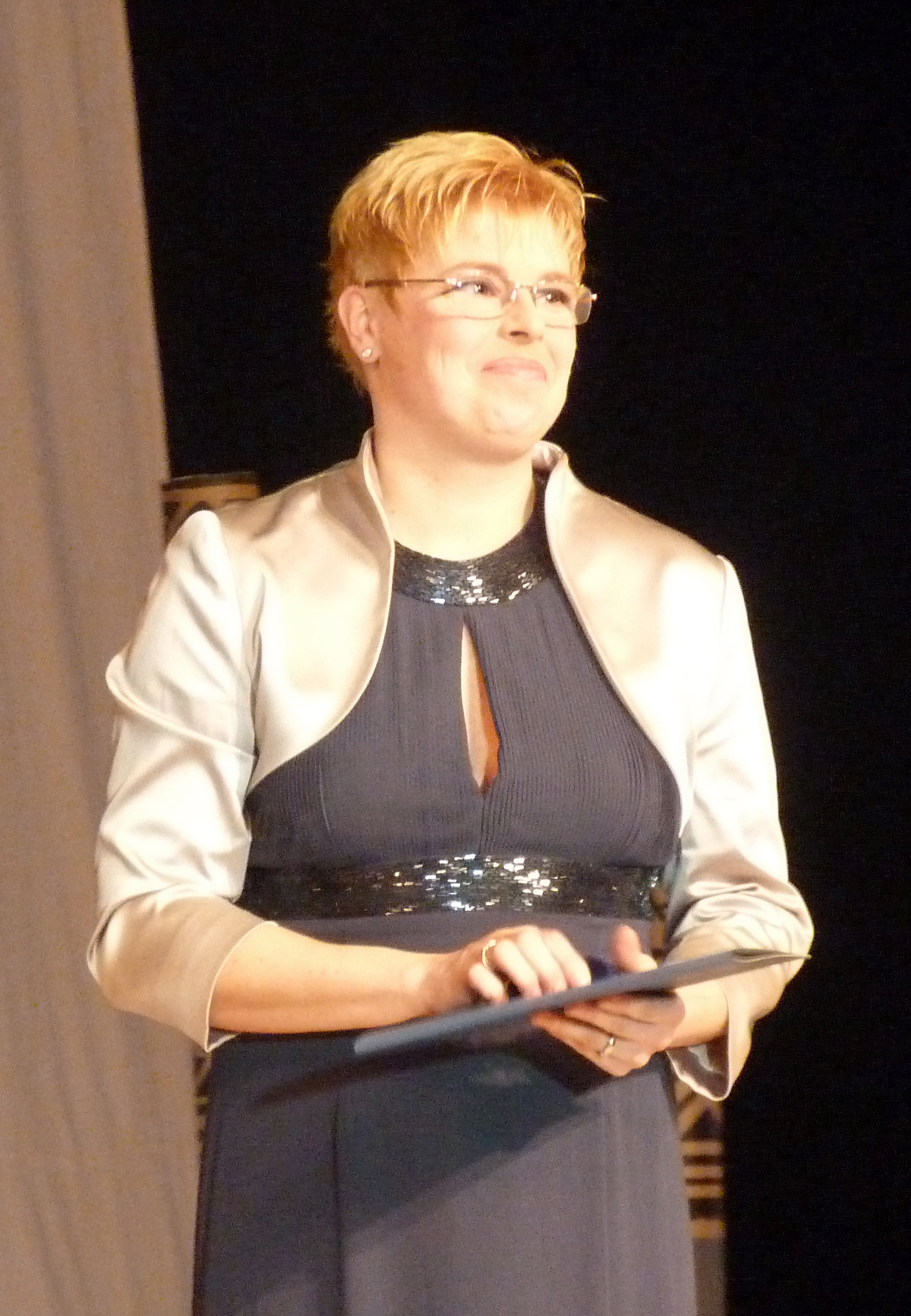 Live on the 14th of February, 2015. Budapest, Várkert Bazár. II. Budapest Székely Ball. Farkas Ágnes was awarded Honorary Székely Award by Kövér László and Szász Jenő